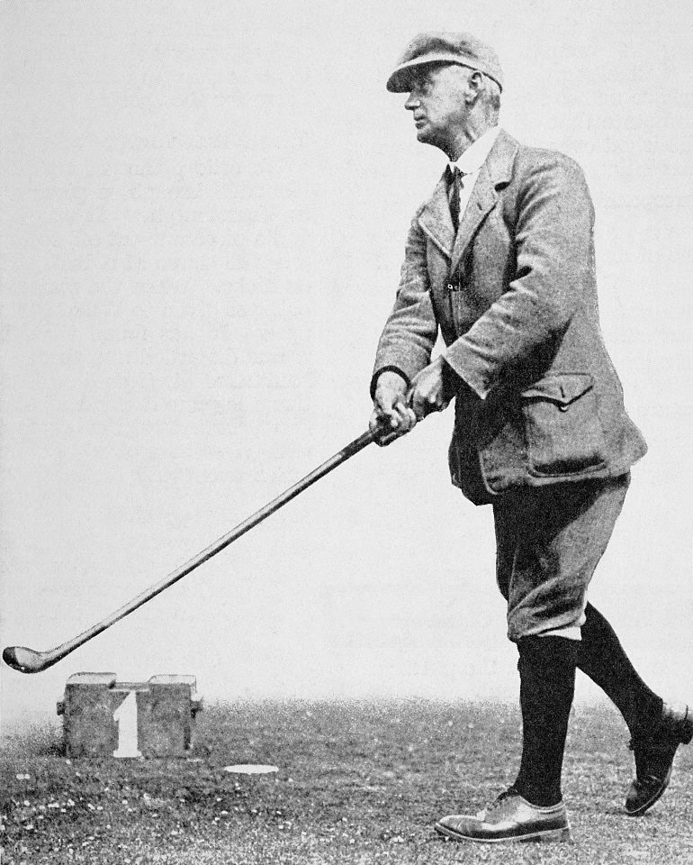 English amateur golfer John Ball who was eight times amateur champion between 1888 and 1912, also winning the British Open Championship in 1890, pictured circa March 1913.